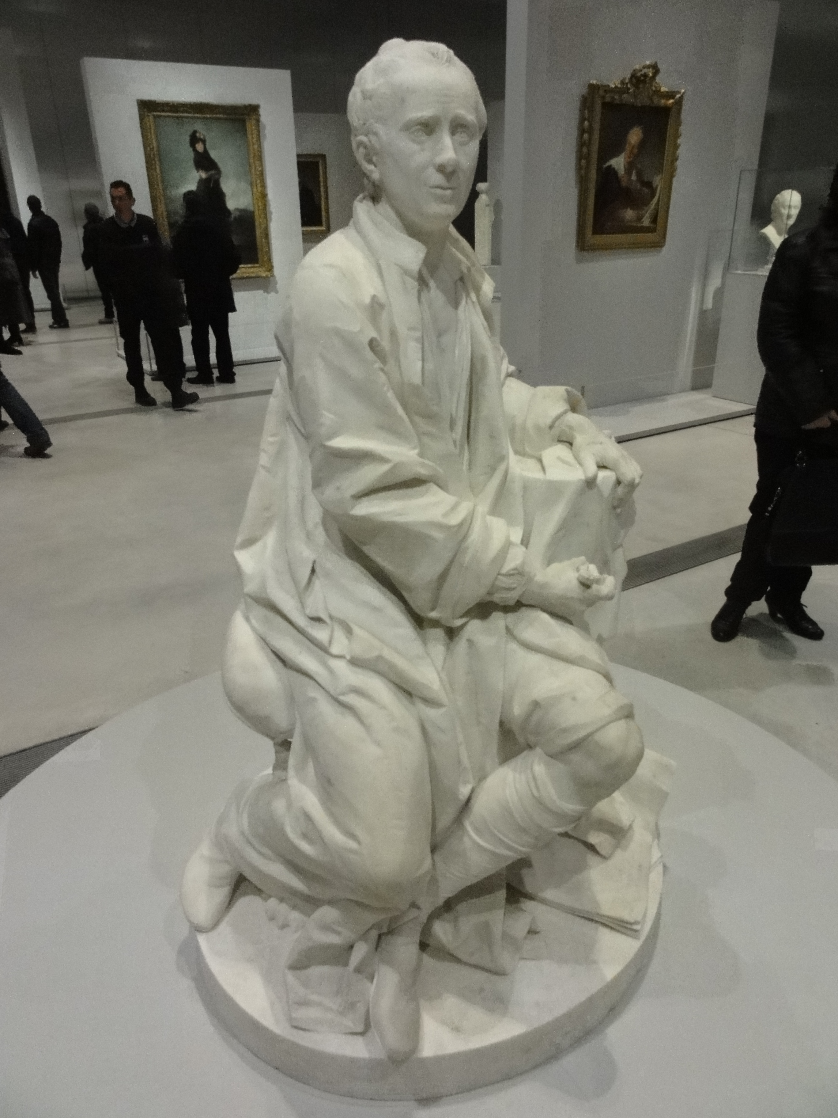 Provenance: France ; Depicted person: Jean le Rond d'Alembert